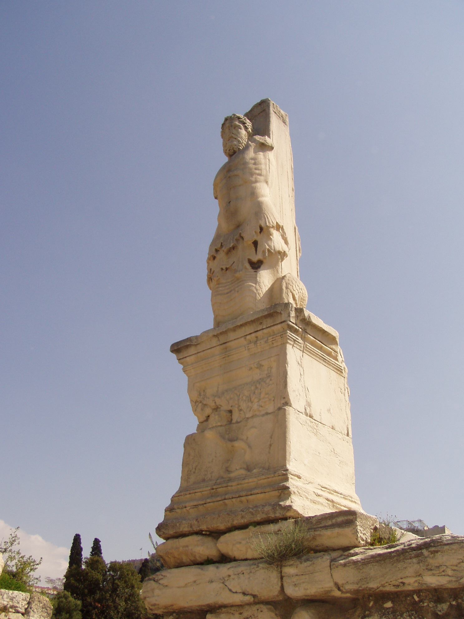 Statue of a triton-shaped pillar along the former facade of the Odeon of Agrippa (built in 14 BC by Marcus Vipsanius Agrippa) in the Ancient Agora of Athens.